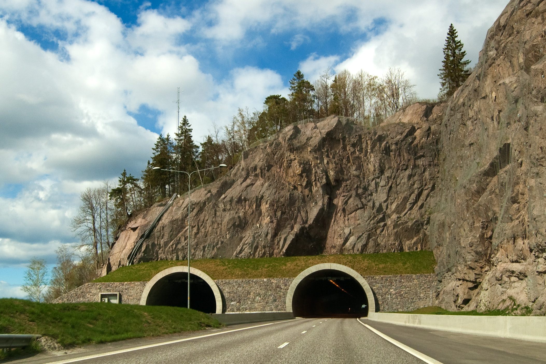 Hem tunnel on national road E18, Vestfold, Norway